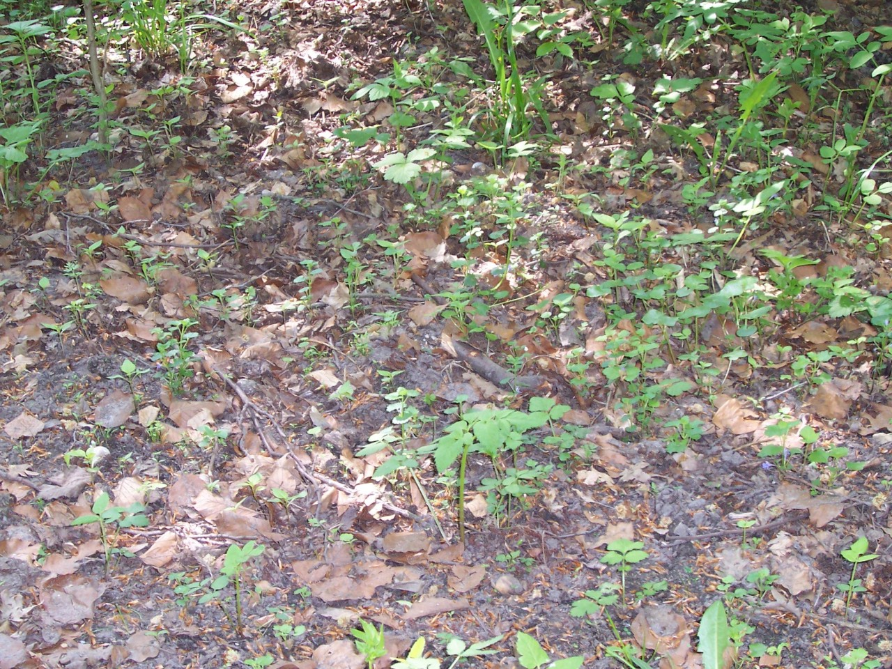 Plant litter mulch in a forest, naturally enhancing the vegetation and soil vitality.